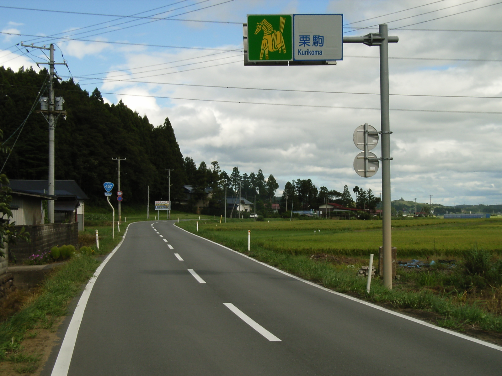 Route 457 (National Highway 457) of Japan. Kurihara, Miyagi prefecture, Japan.